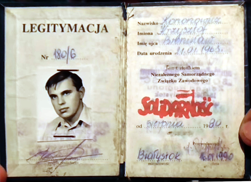 Membership card of Krzysztof Kononowicz at NSZZ Solidarność.